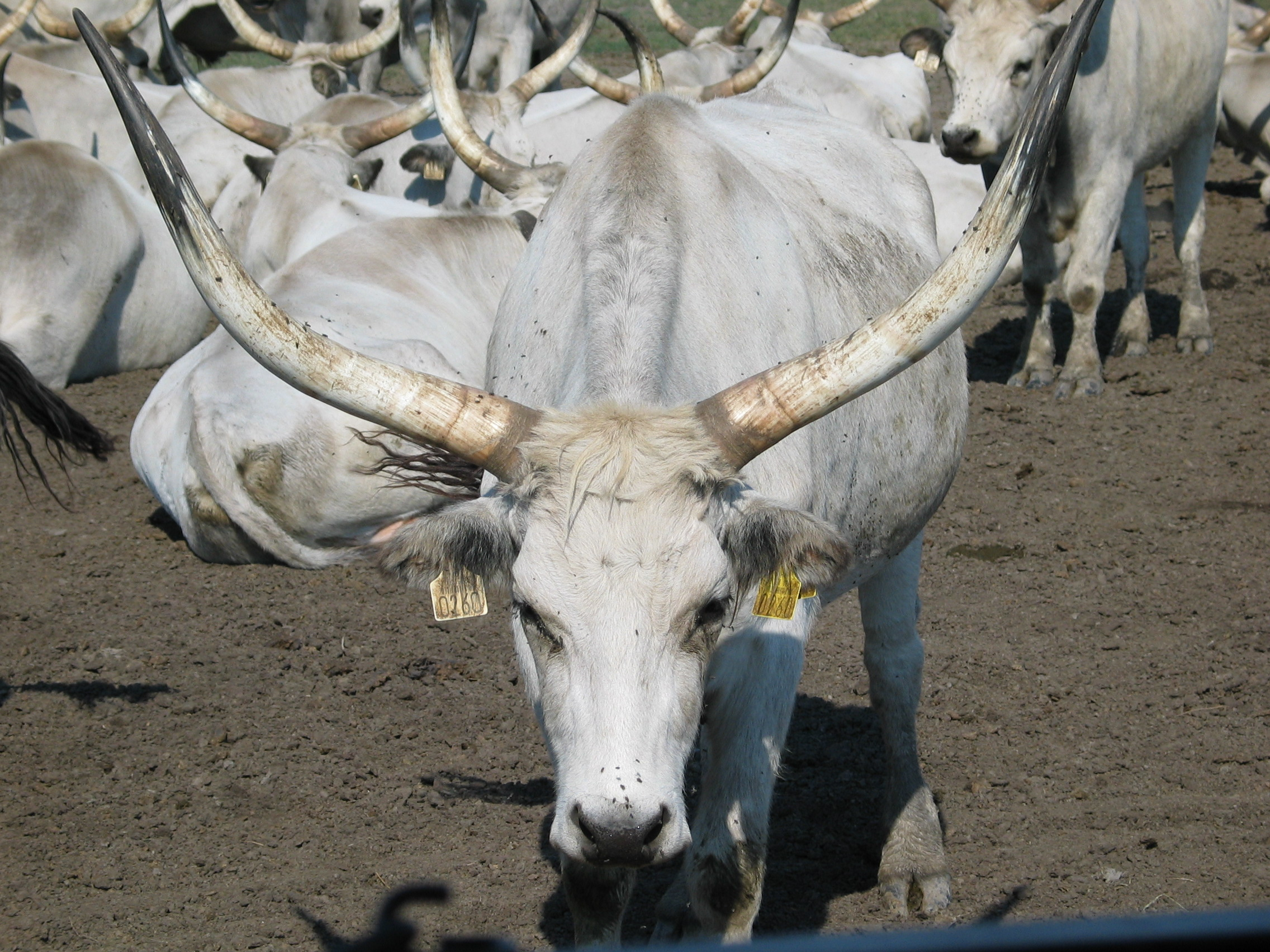 Hungarian Grey cows in Hortobágy National Park, Hungary.